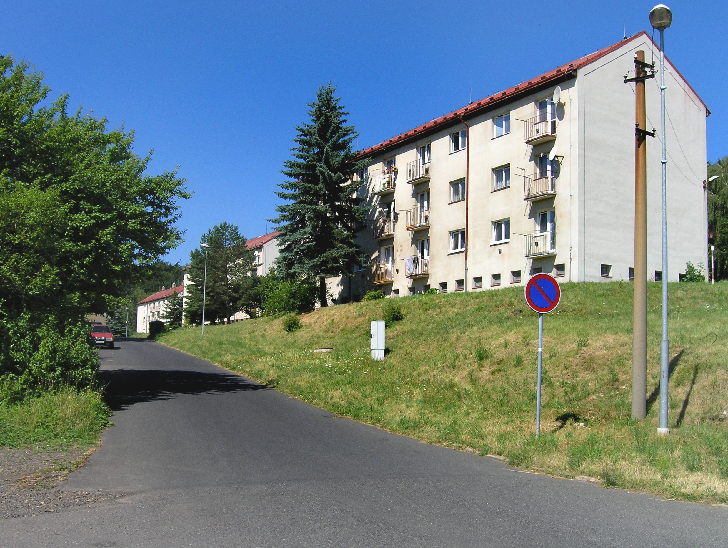 Housing estate in the north part of Střelná, part of Košťany town, Czech Republic